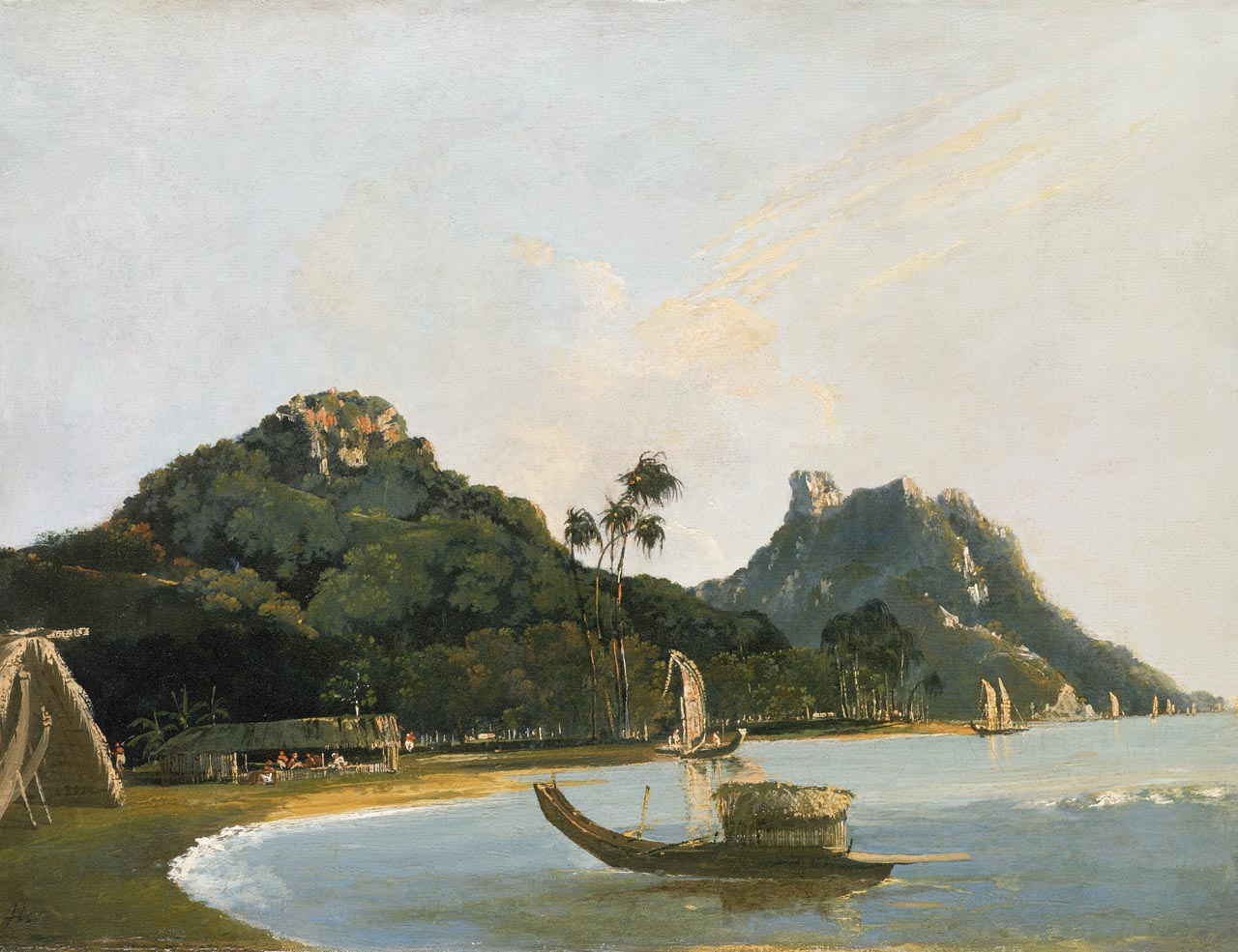 Hodges's paintings of the Pacific celebrate British exploration. He was appointed by the Admiralty to record the places discovered on Cook's second voyage, undertaken in the 'Resolution' and 'Adventure', 1772-75. This was primarily in the form of drawings, many later converted to engravings in the official account of the voyage. He also did some oil paintings on the voyage but most, especially the larger ones, were painted in London on his return. The National Maritime Museum holds 26 oils relating to the voyage of which 24 were either painted for or acquired by the Admiralty. Cook's main purpose on this expedition was to locate, if possible, the much talked-of but unknown Southern Continent and further expand knowledge of the central Pacific islands, in which Hodges' records of coastal profiles were in part important for navigational reasons. This canvas, along with BHC2419, was painted on the spot during Cook’s second voyage. Such paintings show the influence of the shipboard practice of taking coastal profiles, a technique in which officers were routinely trained: teaching it was one of Hodges’ tasks on the ship. However, these are strikingly unconventional departures from the artistic tradition of landscape painting. Above all, they show a western artist’s attempts to come to terms for the first time with the effects of light in the southern hemisphere.